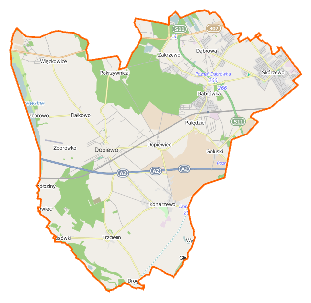 Map of Gmina Dopiewo, Poland This map of Dopiewo (gmina) was created from OpenStreetMap project data, collected by the community. This map may be incomplete, and may contain errors. Don't rely solely on it for navigation. Border coordinates52.422316.6014←↕→16.817752.2934